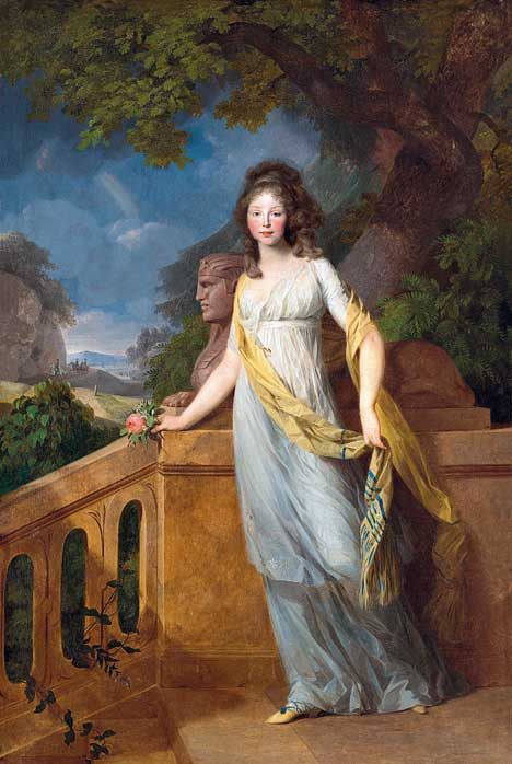 Luise of Mecklemburg-Strelitz, Crown Princess of Prussia (later Queen), depicted in an antiquing landscape.